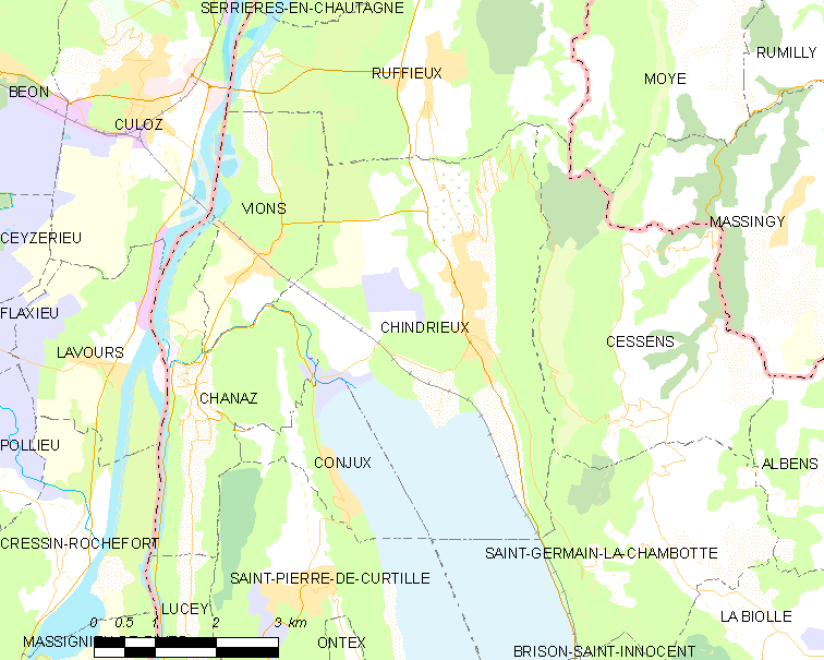 Map of French municipality